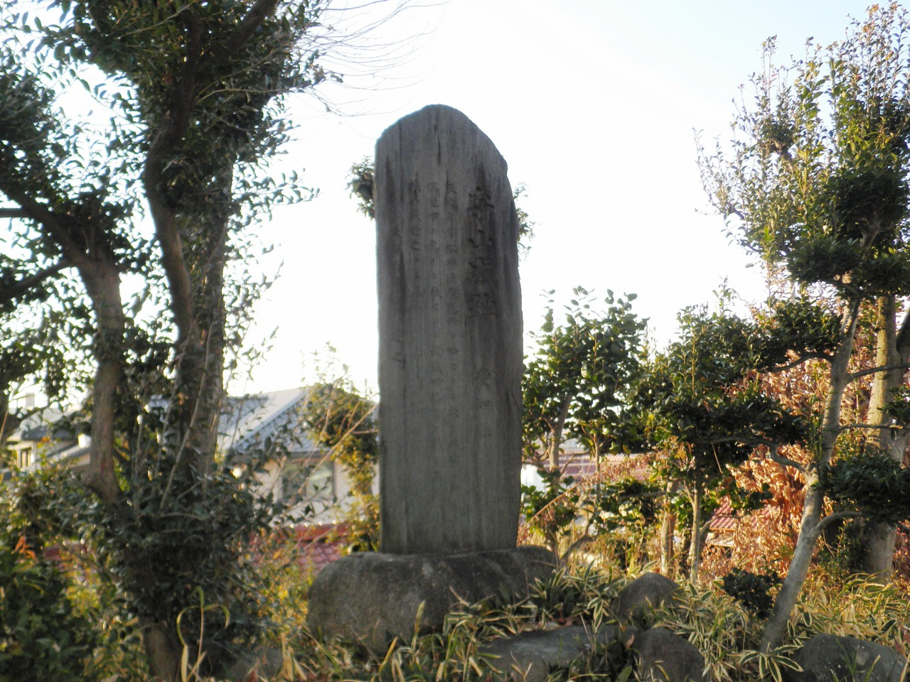 The Monument of Moriyama Castle Site located in Aichi pref.,Japan